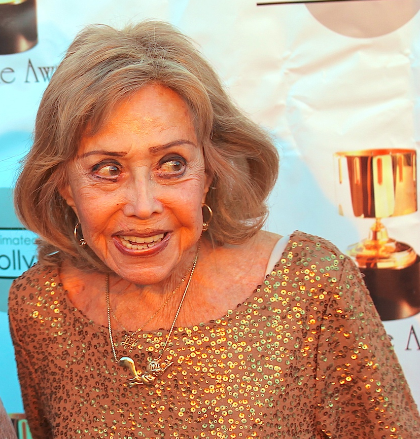 June Foray at the 41st Annual Annie Awards.